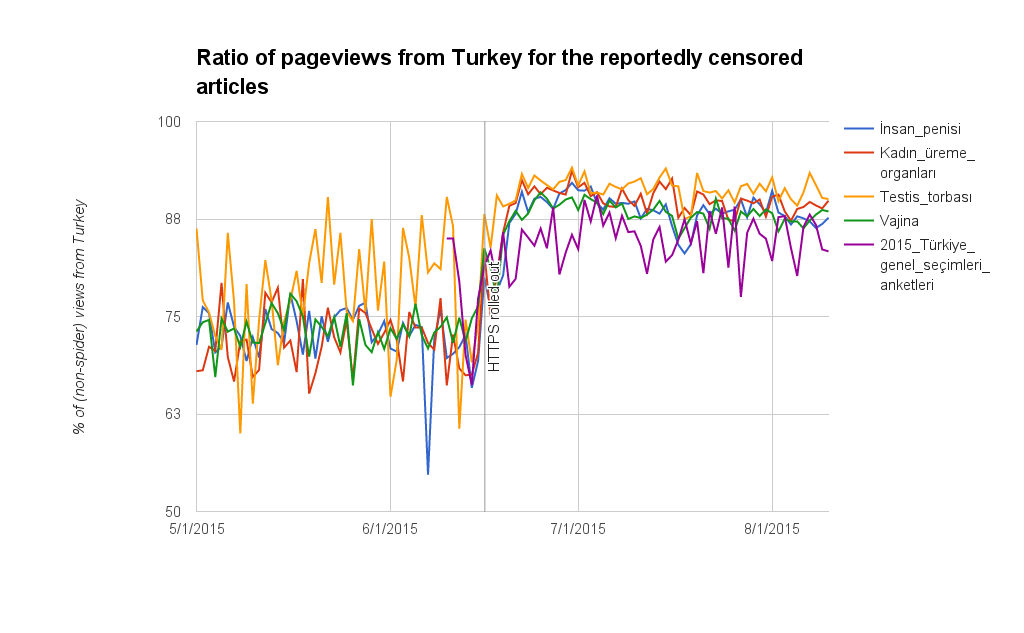 Cf. [1] and [2] Data source: SELECT concat(month,'/',day,'/',year) AS date, page_title, 100*SUM(IF (country = "Turkey", view_count, null))/SUM(view_count) AS from_Turkey FROM wmf.pageview_hourly WHERE year = 2015 AND agent_type = "user" AND project = "tr.wikipedia" AND (page_title = "İnsan_penisi" OR page_title = "Kadın_üreme_organları" OR page_title = "Testis_torbası" OR page_title = "Vajina" OR page_title = "2015_Türkiye_genel_seçimleri_anketleri" OR page_title = "2015_Türkiye_genel_seçim_anketleri" GROUP BY year, month, day, page_title